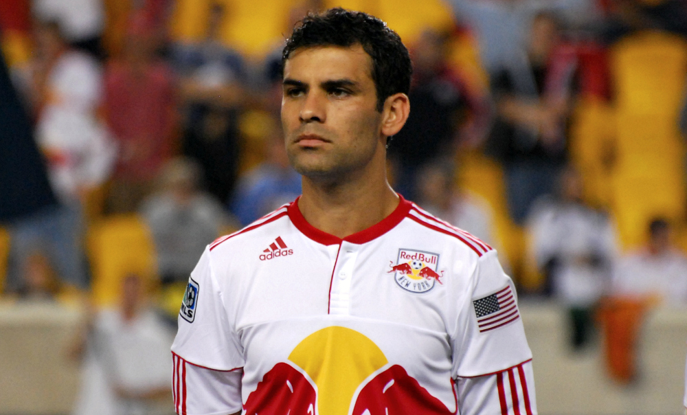 Mexican footballer Rafael Márquez. Photo: September 21, 2011.